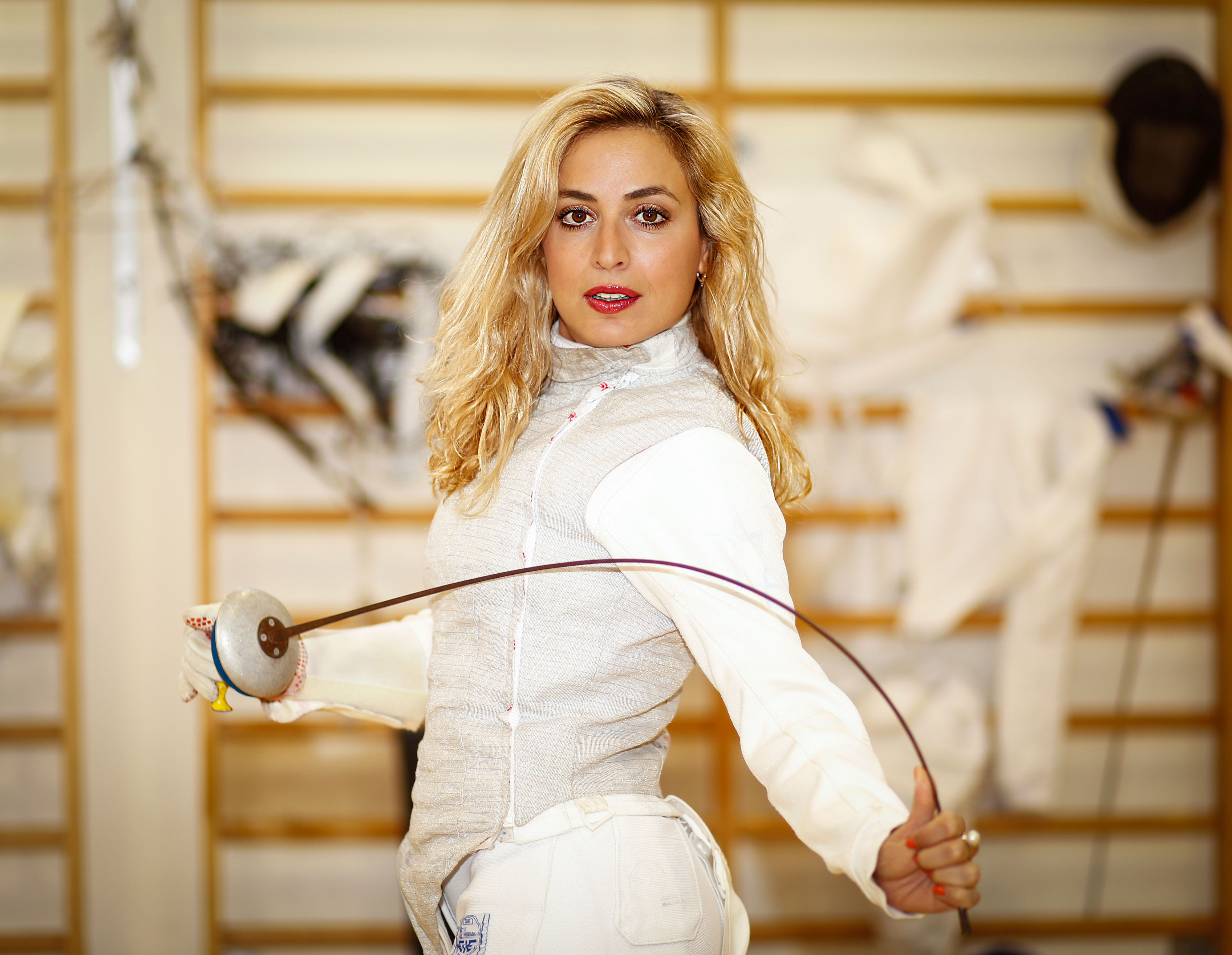 Delila Hatuel. Foil fencing olympic athlete